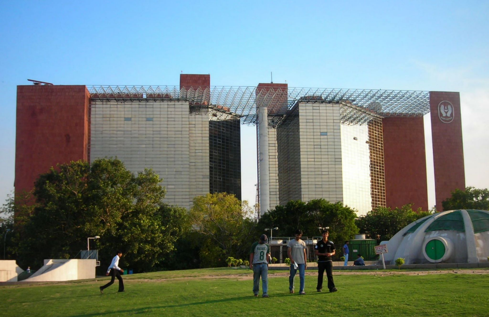 The Jeevan Bharati building, (Life Insurance Corporation of India (LIC) building), at Connaught Place, New Delhi, India, designed by architect Charles Correa, 1986